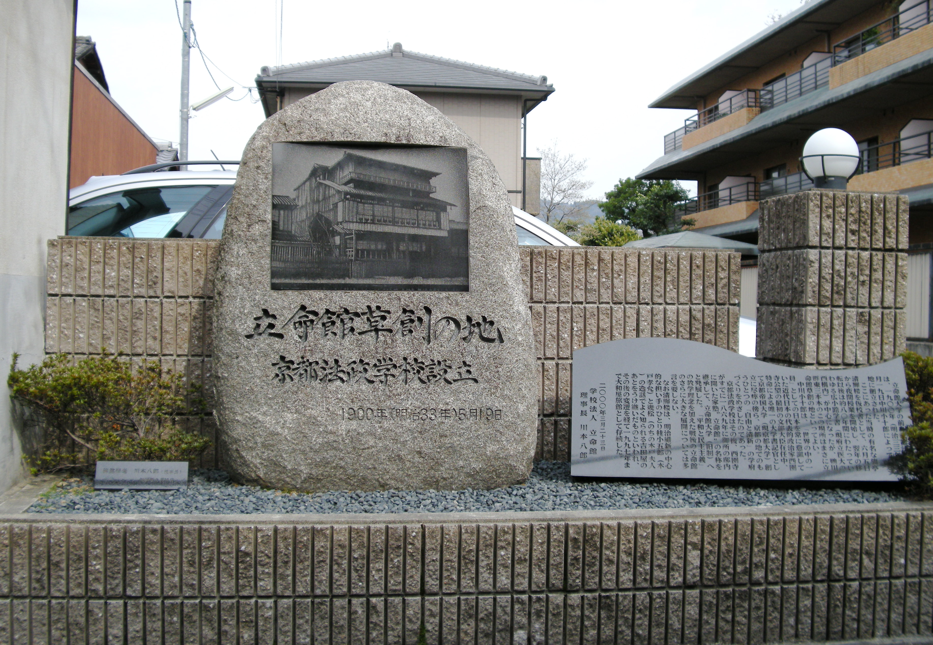 Ritsumeikan School Site 2 (Kyoto, Japan)